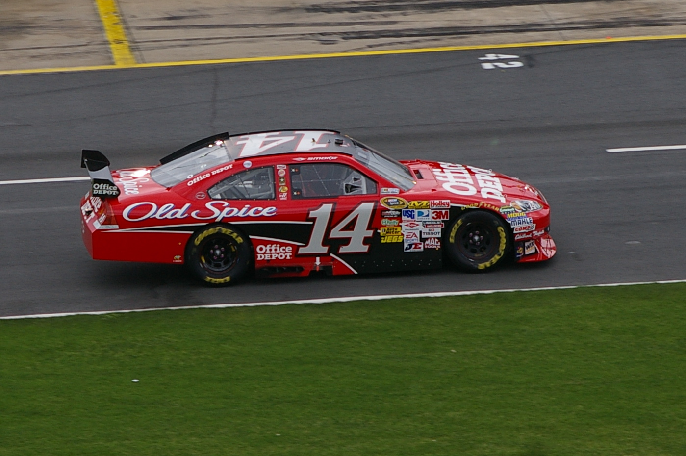 NASCAR race car driver, Tony Stewart, driving down pit road at Charlotte Motor Speedway. muy buen conductor